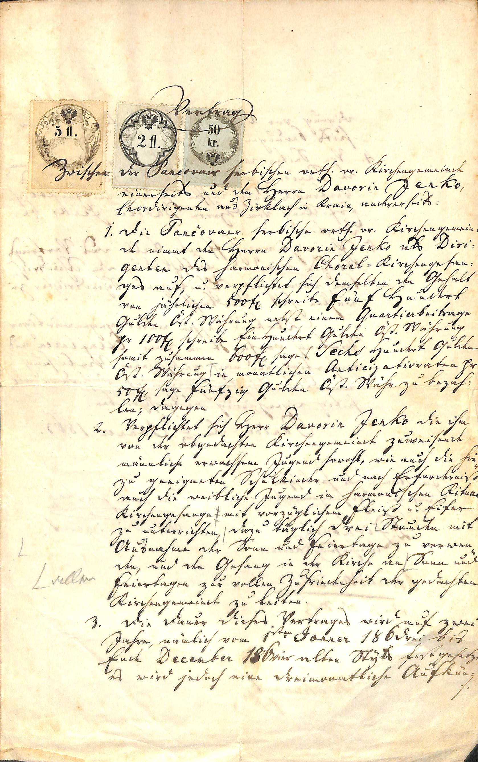 An agreement concluded between Davorin Jenko and the Serbian Orthodox Church in Pančevo, about his engagement for a church choir kapellmeister for the period from January 1, 1863 to the end of 1864, in Pančevo.